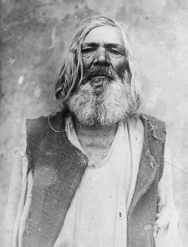 Barbers mean nothing in life. A horny handed son of the Balkan soil. He has lived the allotted three score and ten and then some. And despite the vicissitudes that have swept Roumania he still believes in the future of his country and the goodness of his God. He was a patient in the American Red Cross Hospital but refused to remain if his hair was cut. It is a fifty year growth and he wouldn't part with it